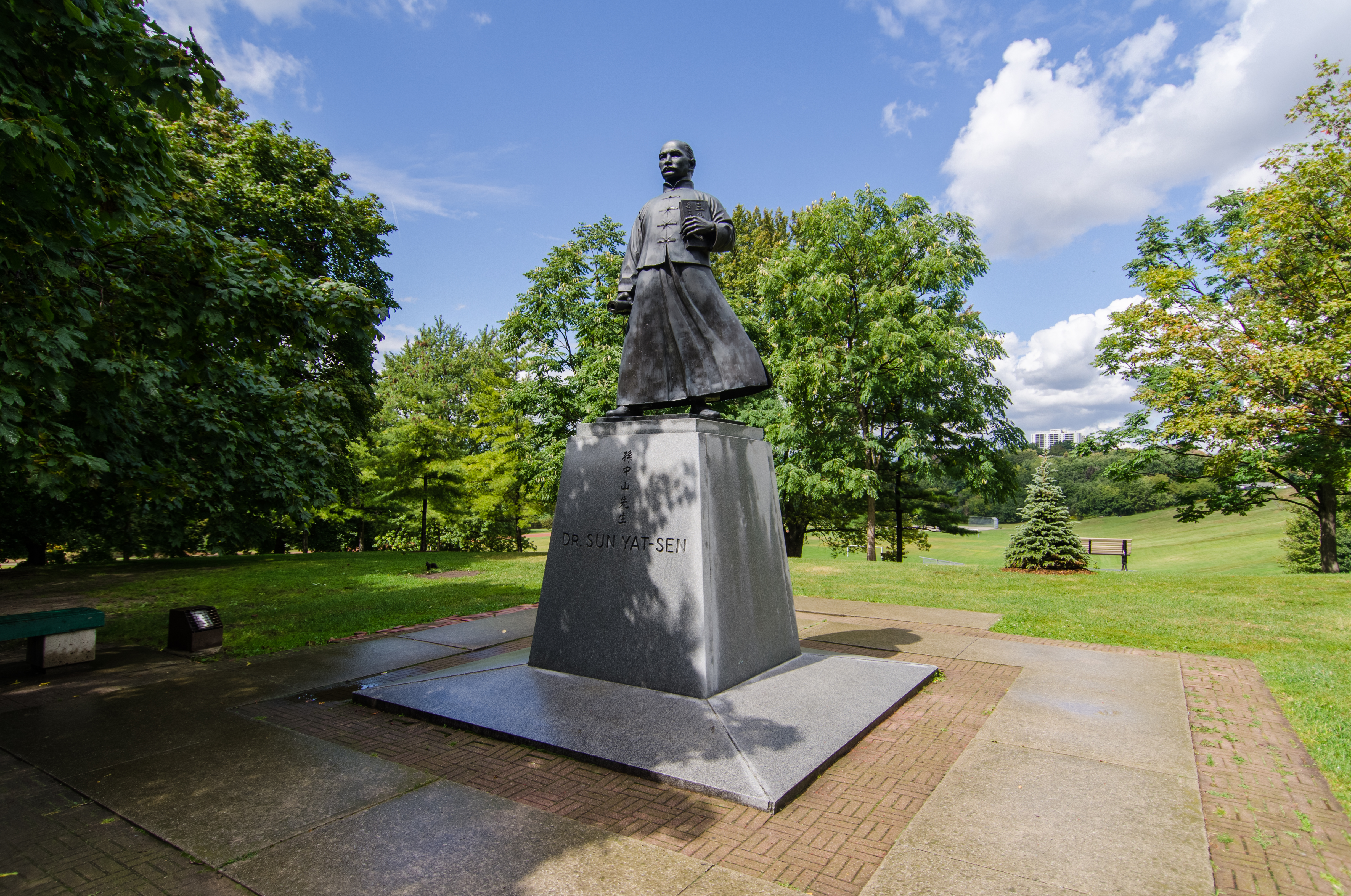 Seen in the Carmilla movie & Amy George.